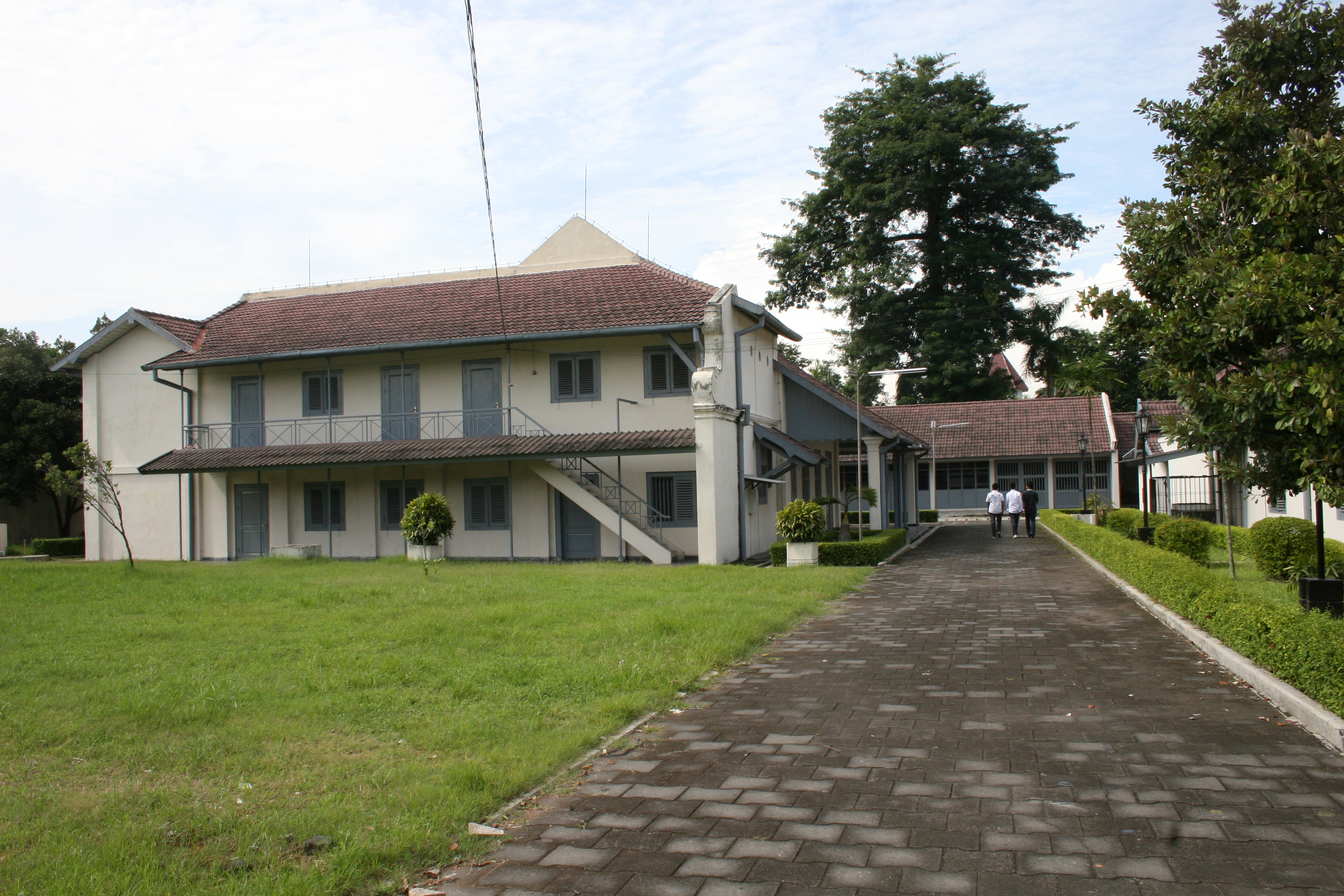 Interior of Fort Vredeburg museum, Yogyakarta, Indonesia